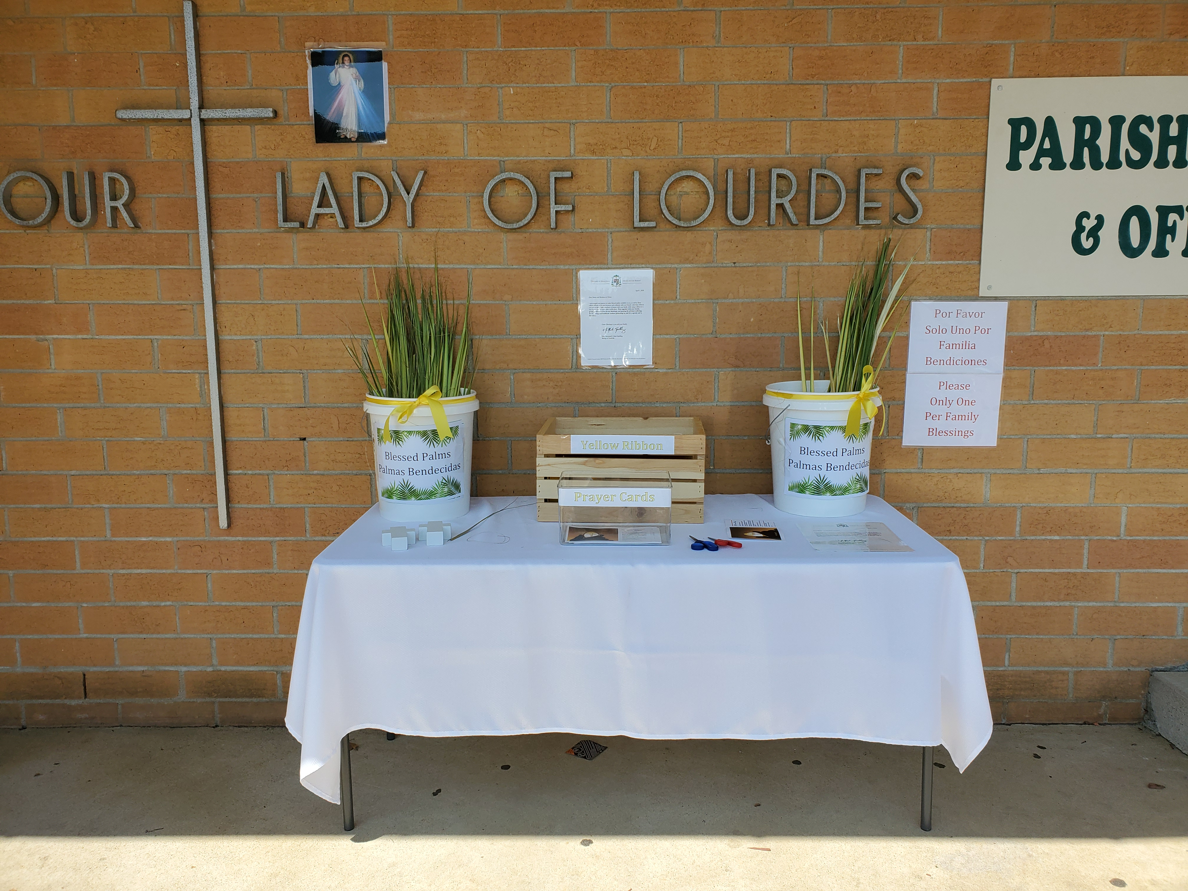 Due to social distancing in response to the coronavirus pandemic, Catholic churches were unable to hold Palm Sunday masses. In the image, Our Lady of Lourdes Catholic Church in Springfield, Tennessee set up a table outside, with blessed palms, yellow ribbons, and prayer cards.